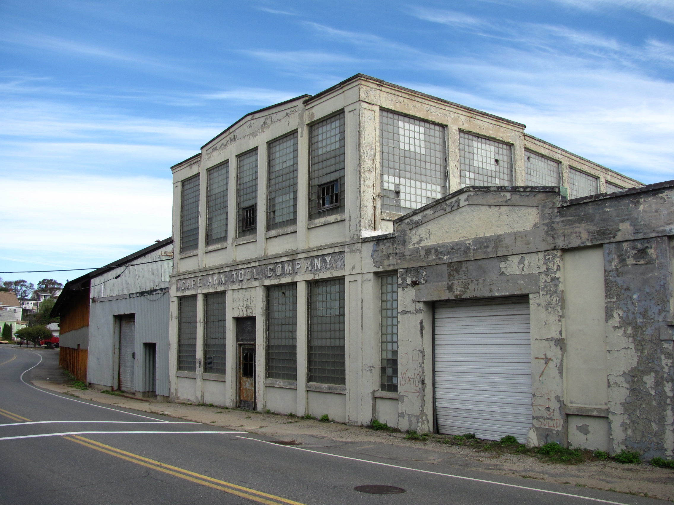 Cape Ann Tool Company, Pigeon Cove Massachusetts